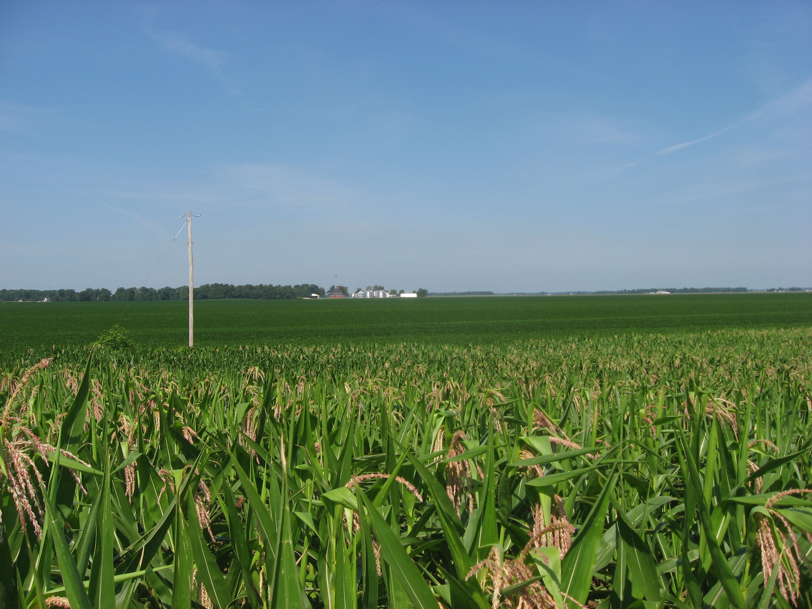 Countryside in southeastern Goshen Township, Auglaize County, Ohio, United States. Note the extremely large soybean field in the distance; it encompasses more than a full section. Also note the round barn at the farm in the distance. Photo taken looking westward from along the northern side of State Route 385; the telephone pole is located along Township Road 15.